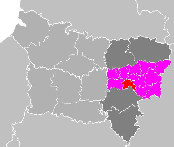 Maps of arrondissements and cantons of France: Arrondissement de Laon